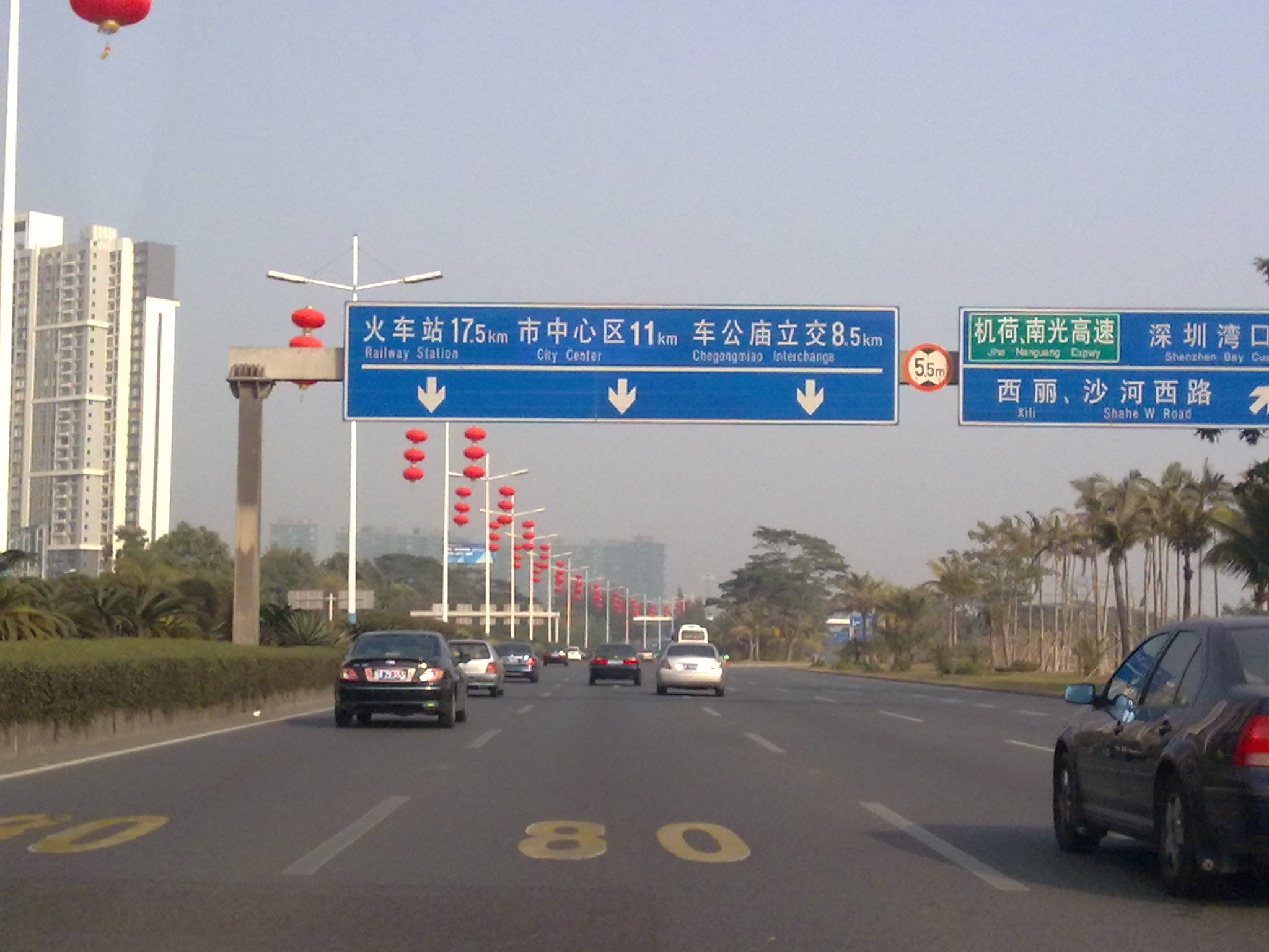 Bin Hai Blvd, signed Chegongmiao Interchange, Shahe West Road, Xili & Shenzhen Bay